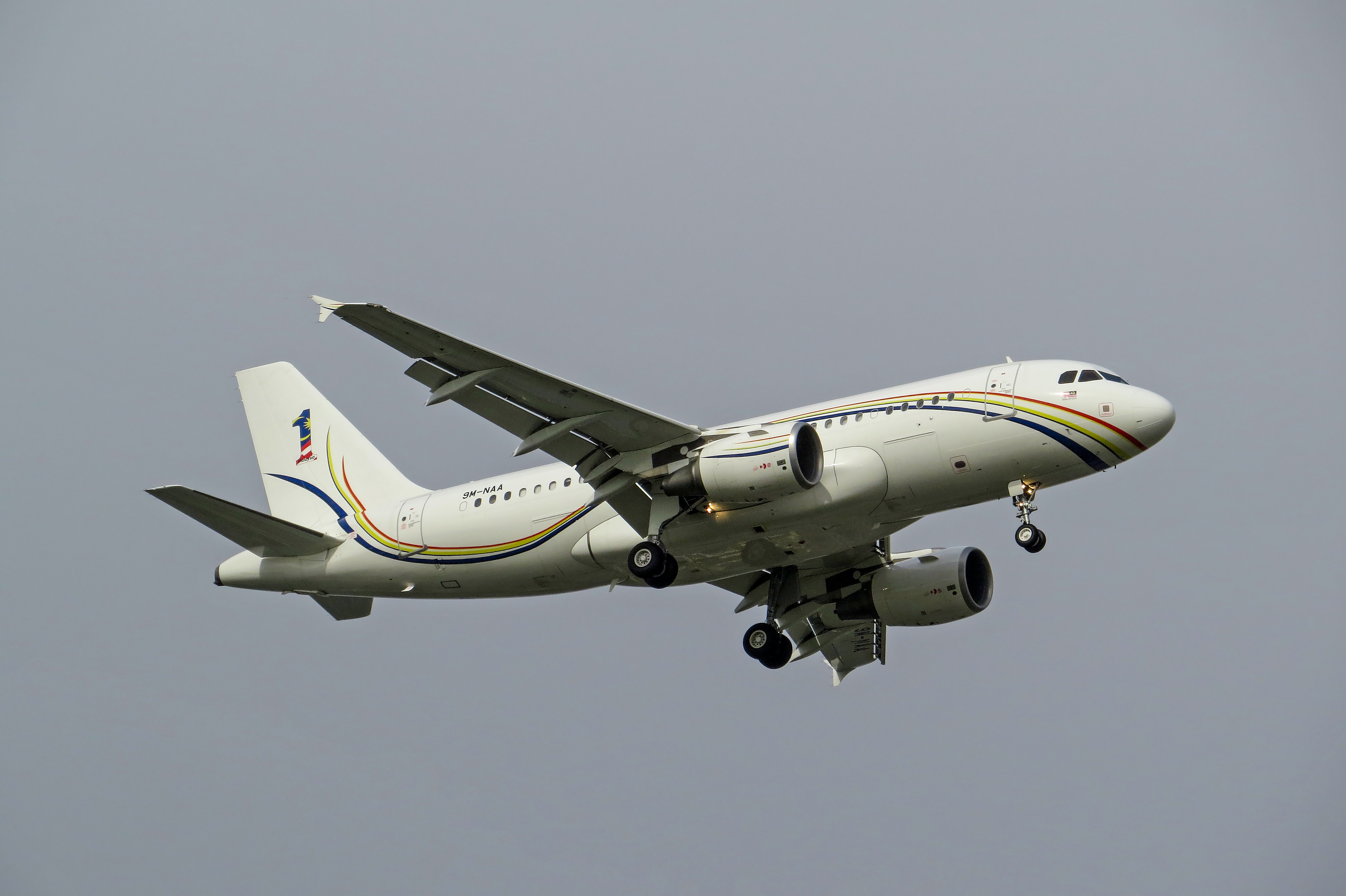 "Malaysia One" from Hangzhou, with Malaysian PM Najib Razak on board. Taken at southwest Nanfaxin. Najib went to Hangzhou for a meeting with Ma Yun...